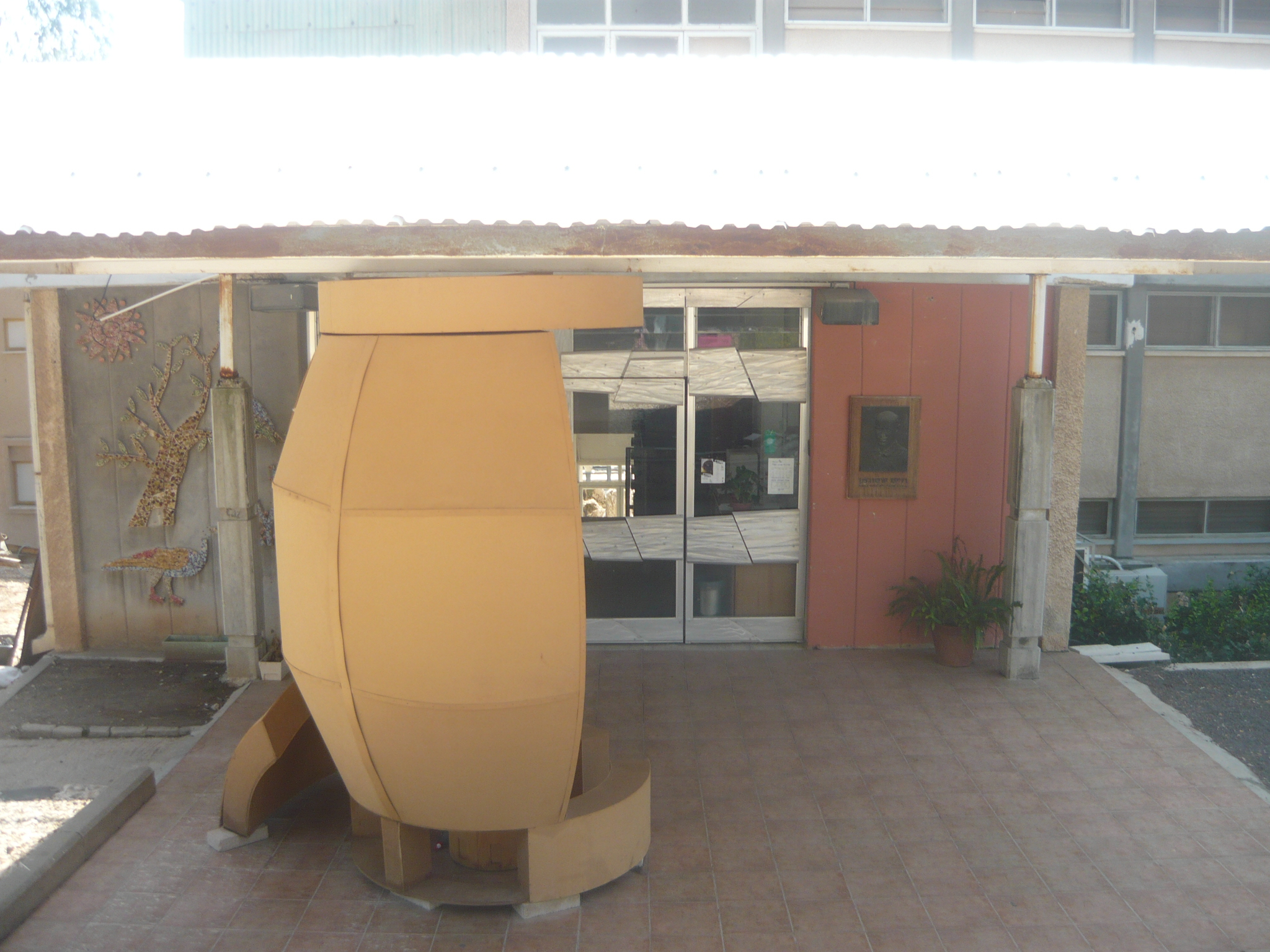 entrance to shturman natural history museum in Eyn Harod, Israel הכניסה למוזיאון הטבע בית שטורמן בעין חרוד